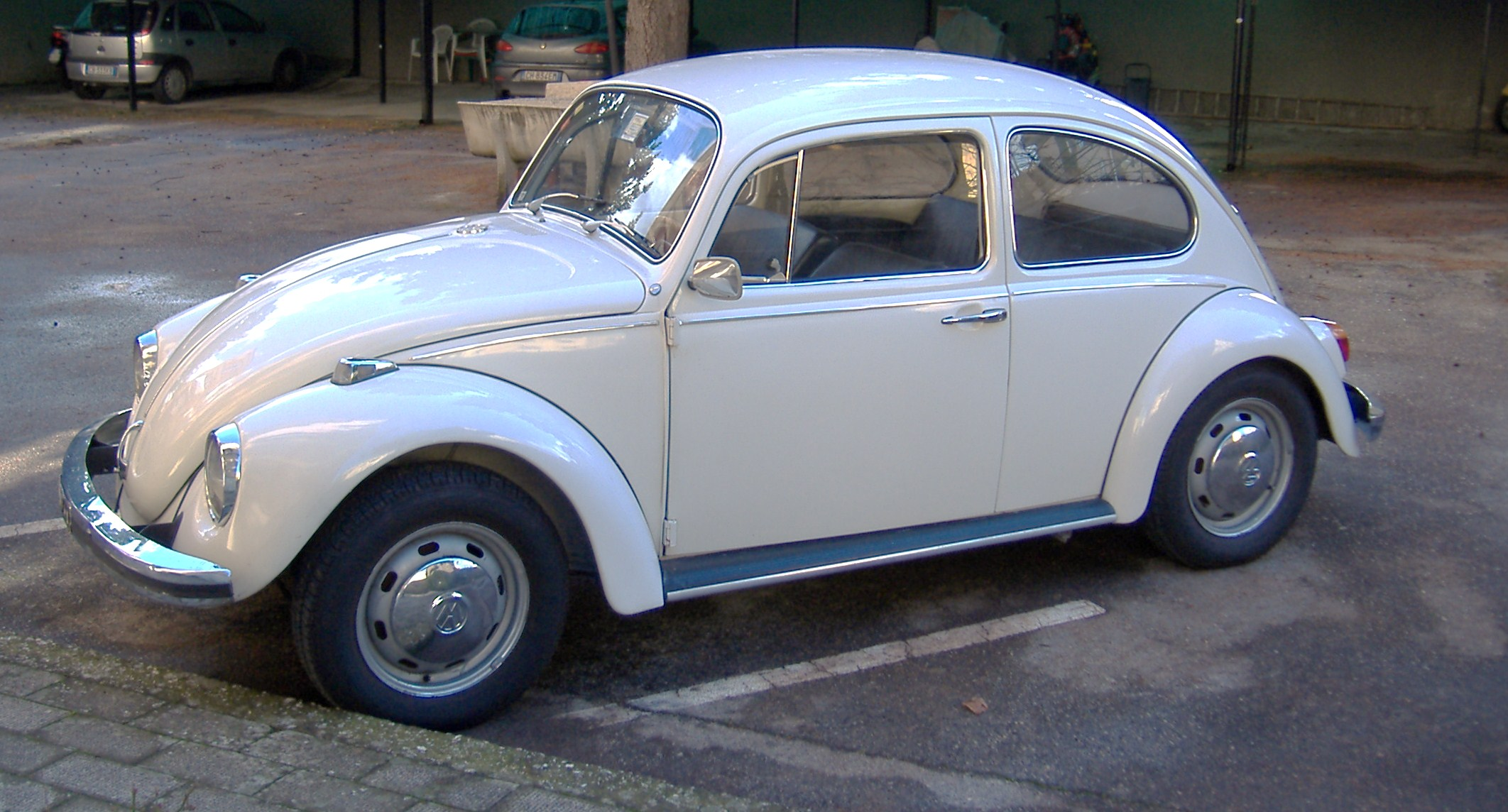 Maggiolino